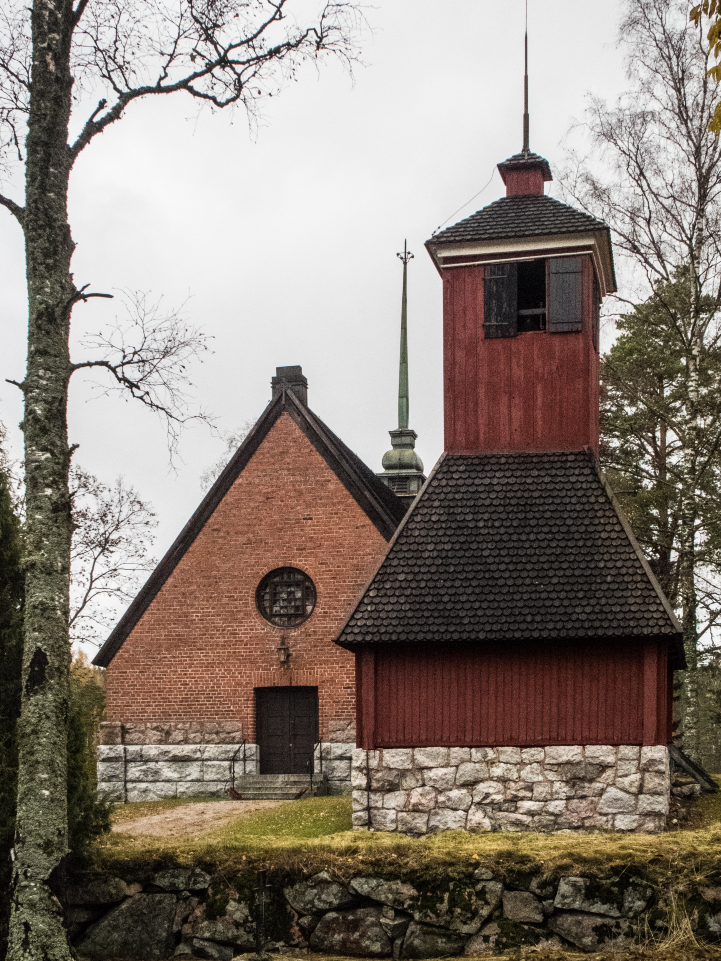 St. Jacob's church in Hevonpää, Paimio, Finland. Architect Lars Sonck, completed in 1928. The fourth church on this medieval site, built to replace the previous church erected 1806 and destroyed in a fire 1909.